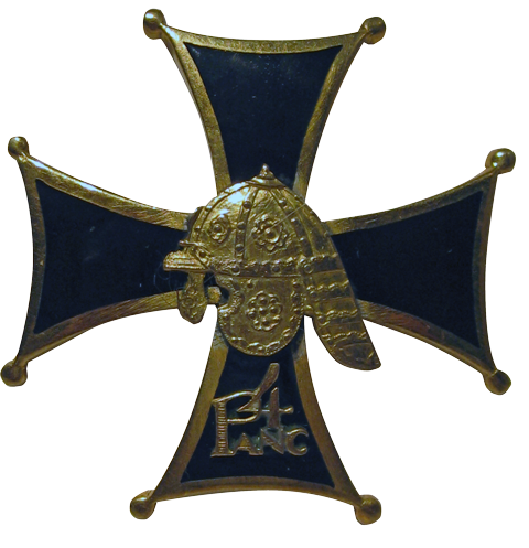 Military insignia of 4th Tank Batalion from Brest, Belarus